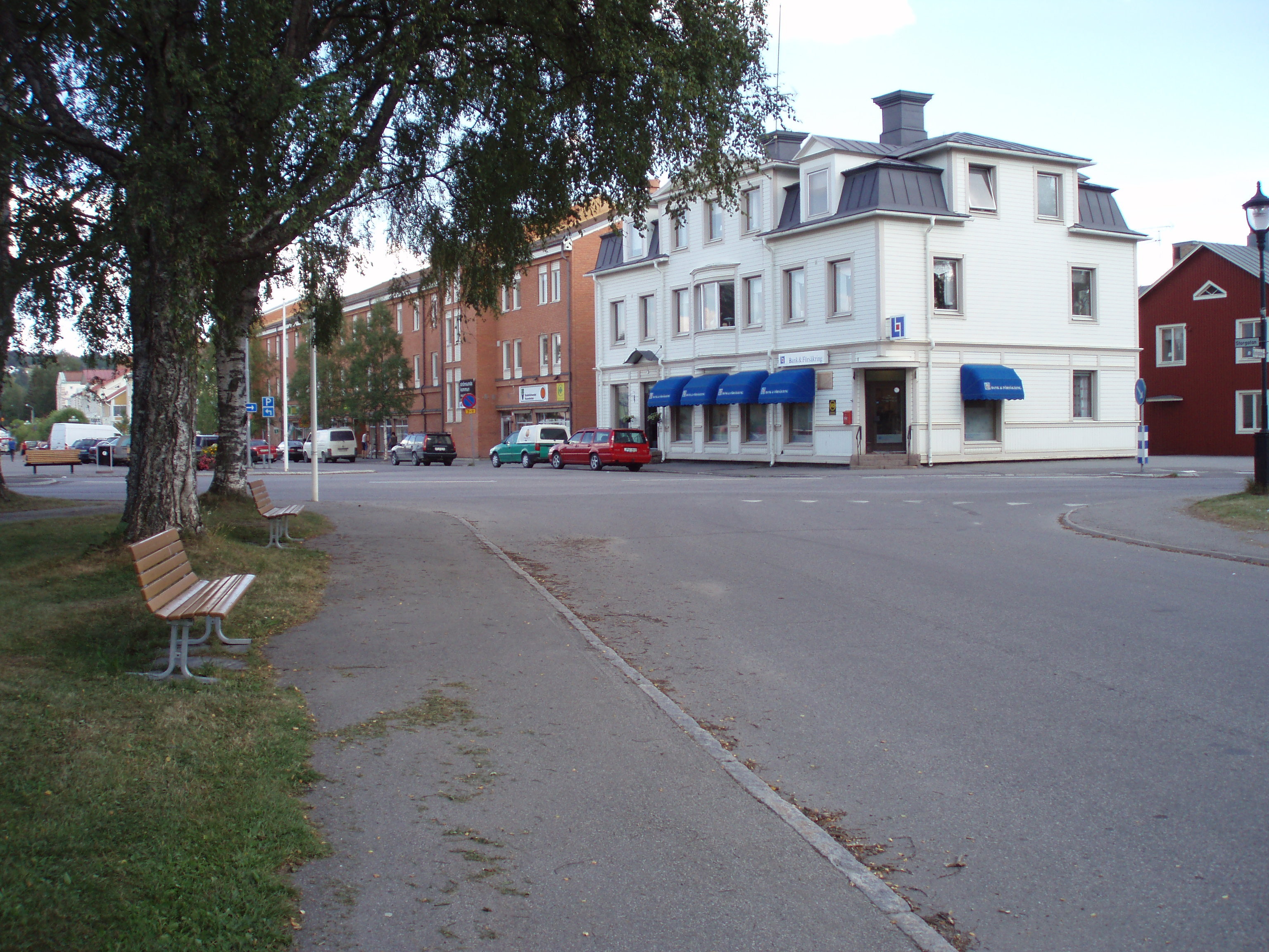 Strömsund, Sweden, Bredgårdsgatan and Storgatan. Photo taken in aug. 2006 by me - User:Cucumber